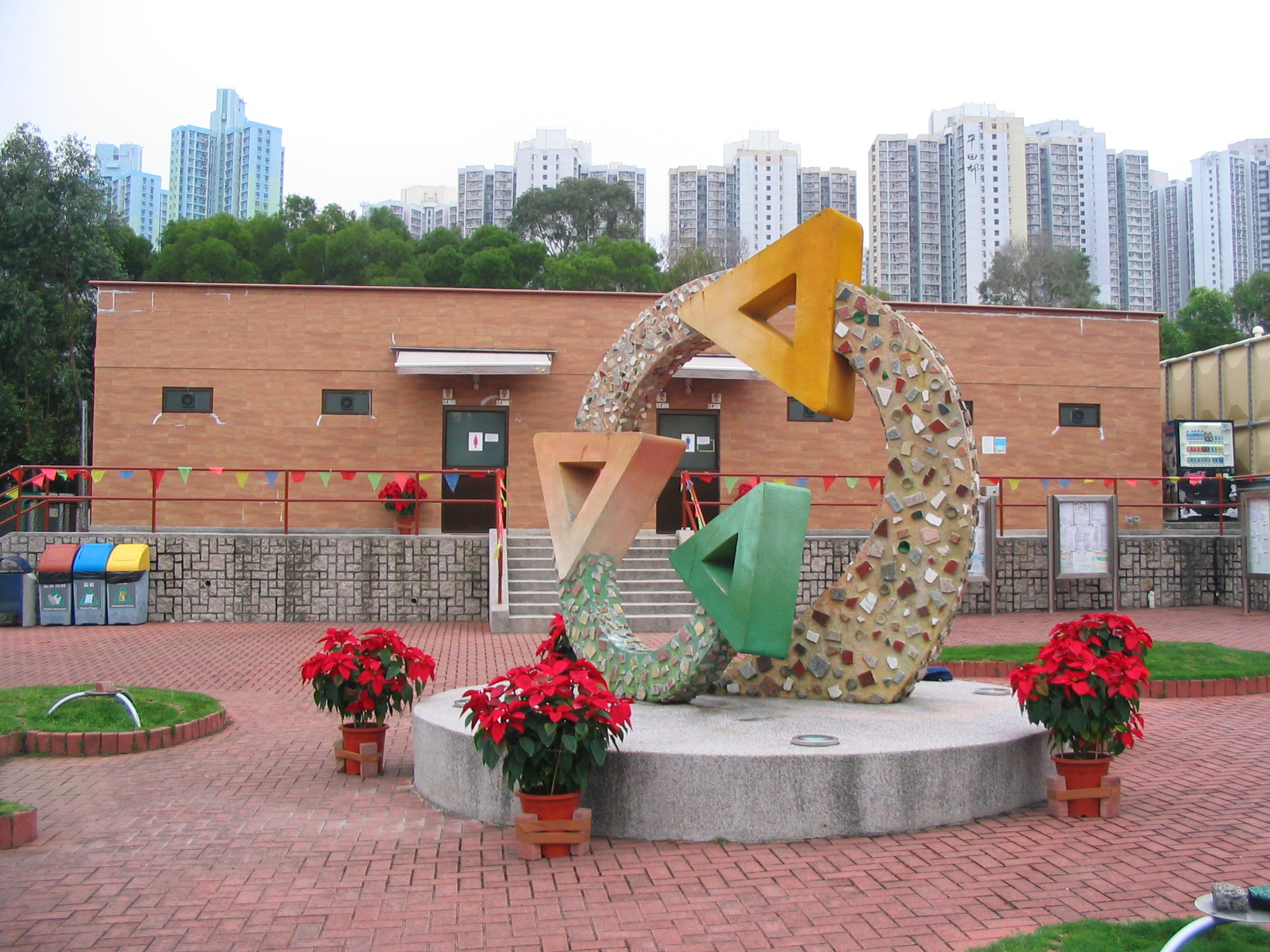 The decorations at Sai Tso Wan with toilet/changing room behind it.